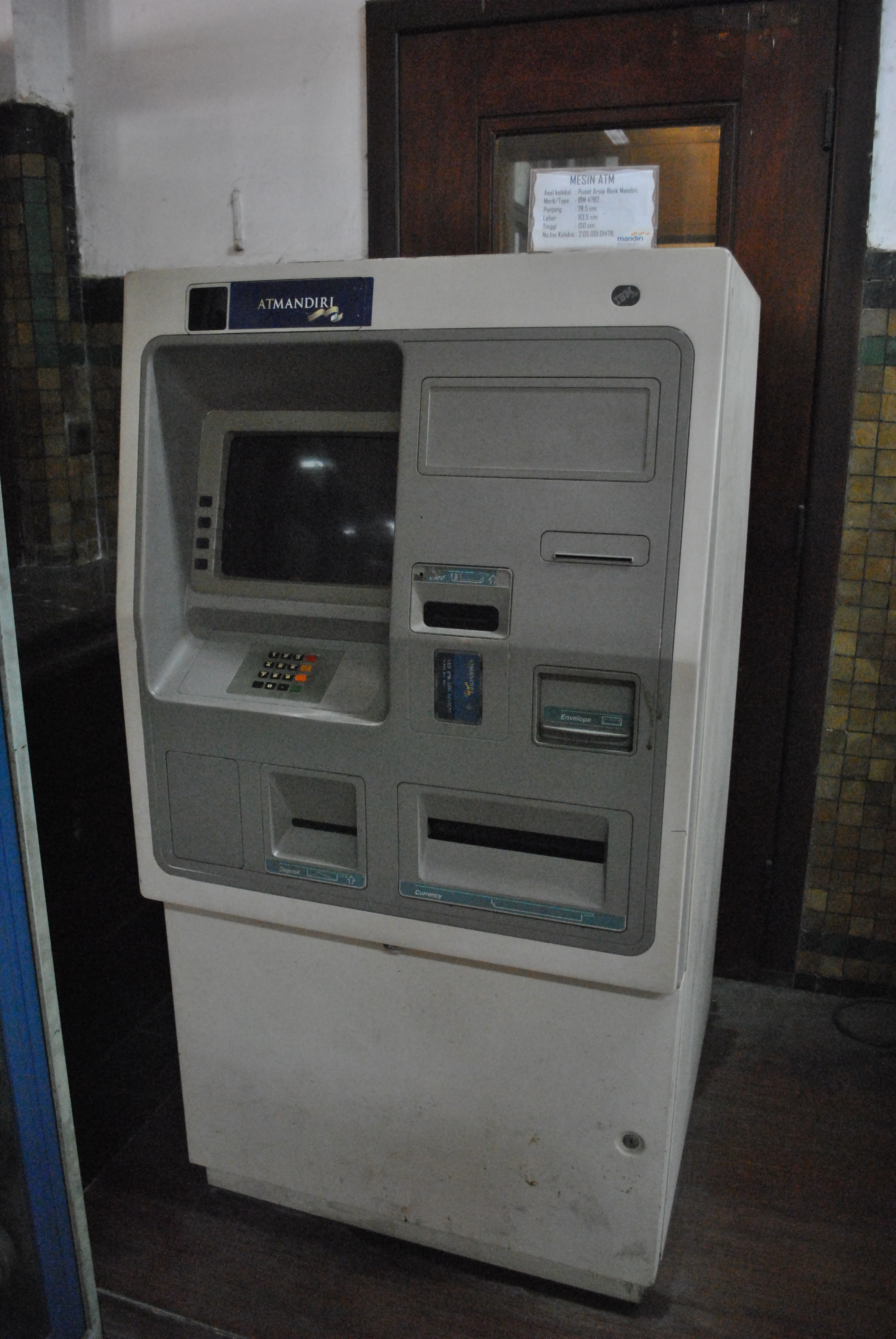 Former Bank Mandiri ATM in display at Museum Bank Mandiri, Jakarta. Probably used in mid-1990s for premerger banks till early 2000s.